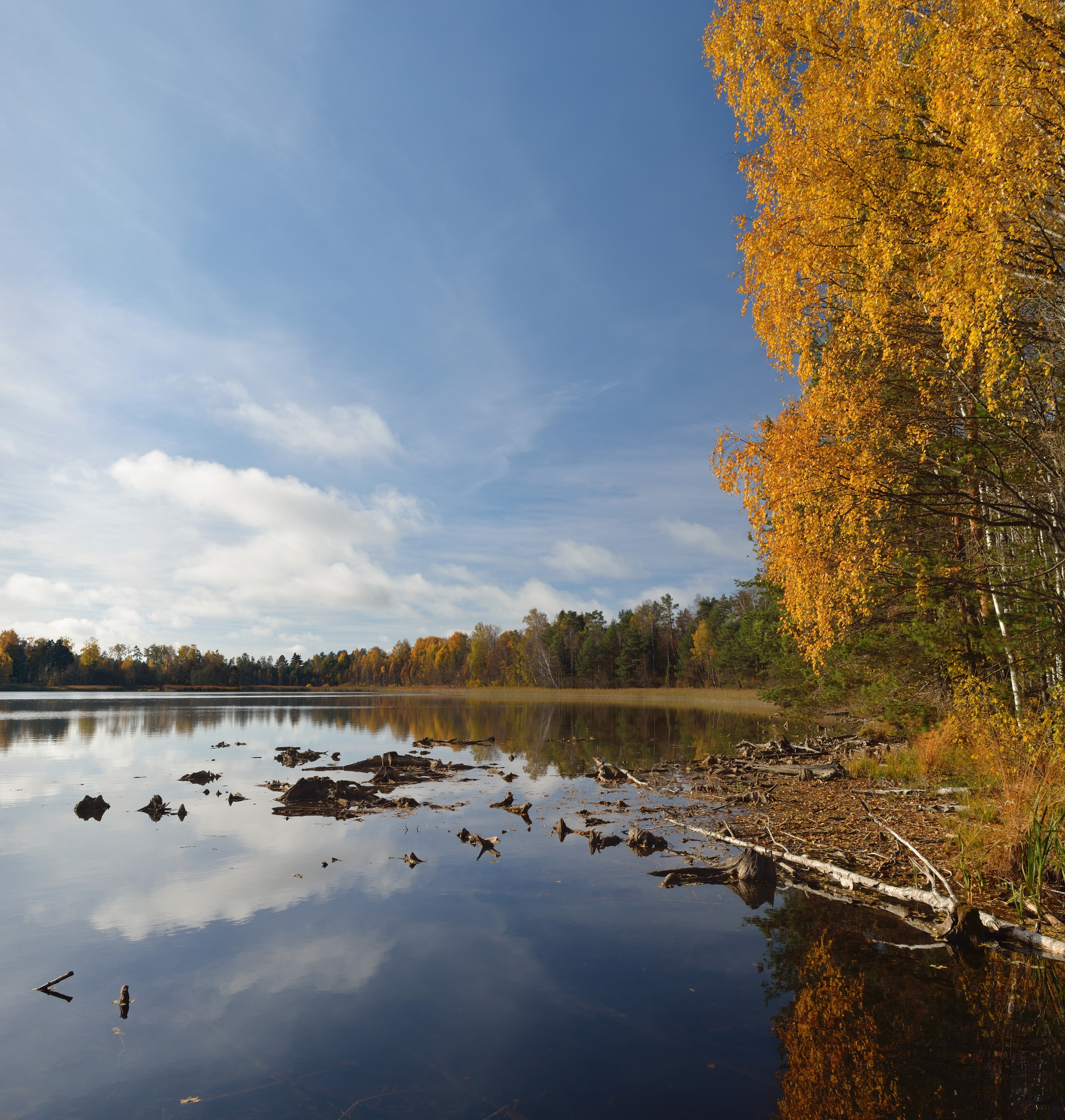 Lake Nõmmejärv, Kurtna Landscape Reserve. Surface area 15.6 ha, deepness as far as 7.5 m.